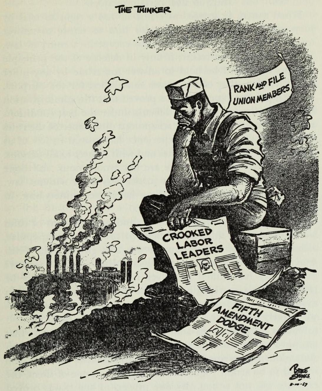 "The Thinker", an editorial cartoon commenting on the allegations of corruption among labor union leaders exposed by the McClellan Committee. Winner of the 1958 Pulitzer Prize for Editorial Cartooning.